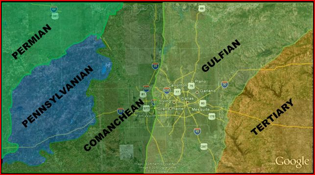 The cretaceous rocks in the DFW metroplex are divided by the Comanchean Series in the West, and the younger Gulfian Series in the east, as is displayed here.